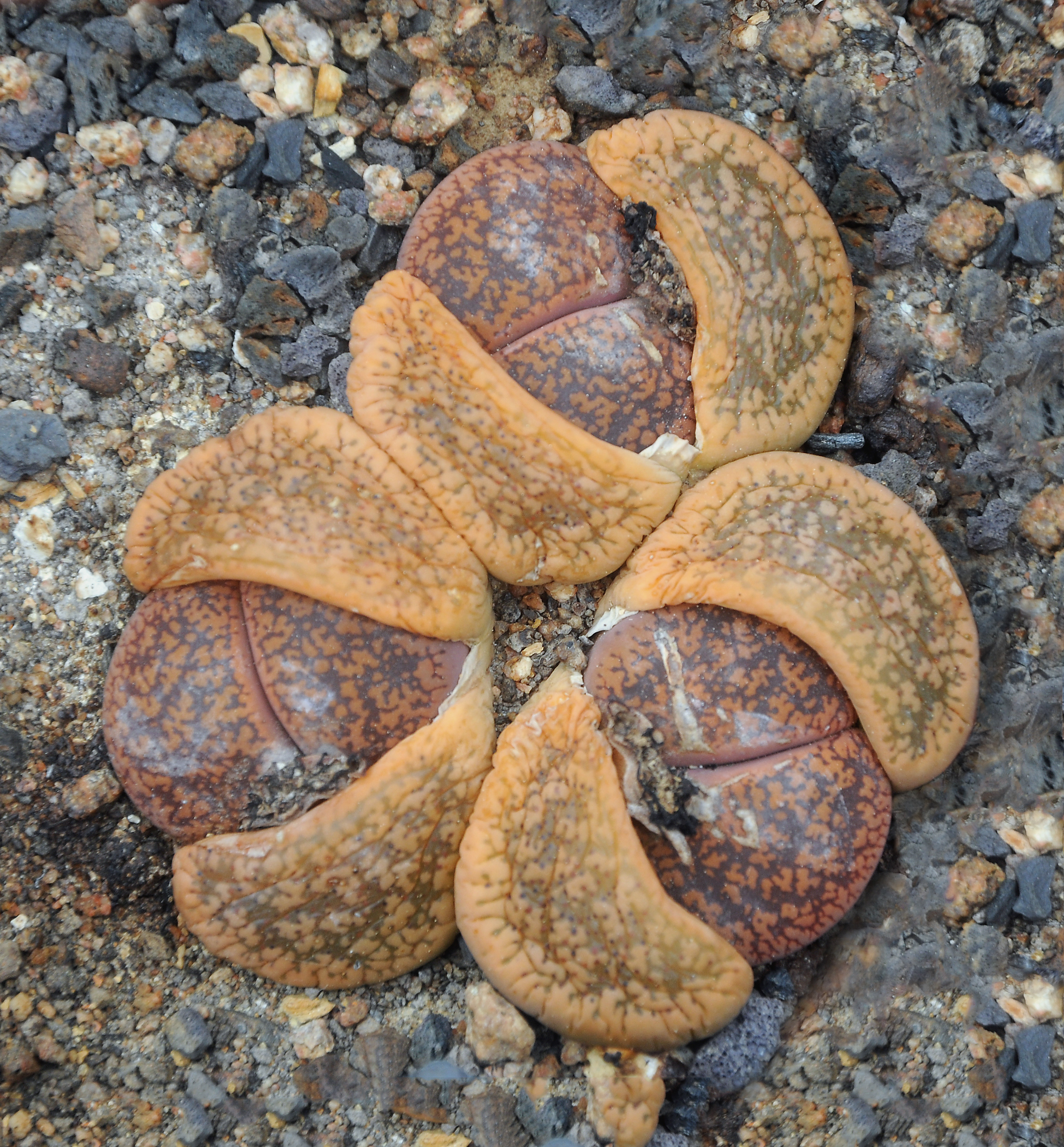 Lithops aucampiae